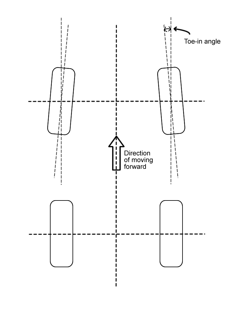 Image of front toe angle 5 degrees, (toe in) regarded by convention as positive